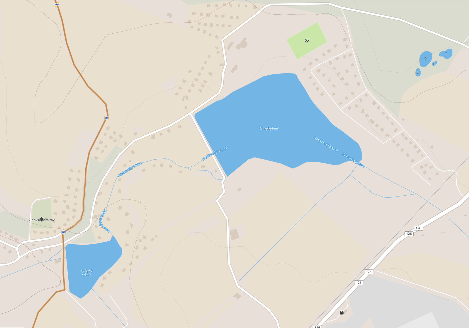 Spalený Pond (Zbraslavice) 1. Schema of Spálený (left) and Starý Pond (right). Kutná Hora District, the Czech Republic.